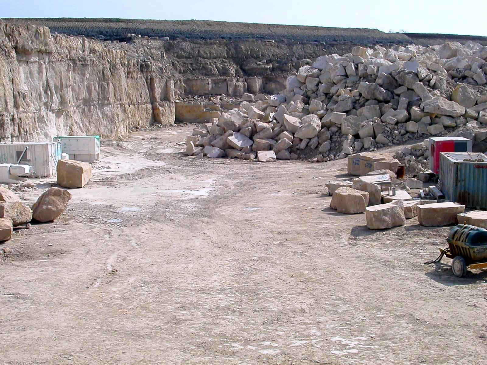 Photograph taken by Mark A. Wilson (Department of Geology, The College of Wooster). [1]